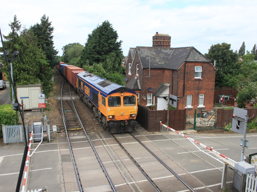 A GB Railfreight container train passes through Trimley behind 66704 on its way to the Port of Felixstowe South Terminal.